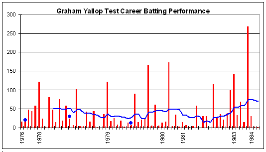 Test batting chart of Graham Yallop. Red columns are the runs in the innings. Blue dots indicate not outs. Blue line is average in the last ten innings. Thanks to Raven4x4x for providing the template.